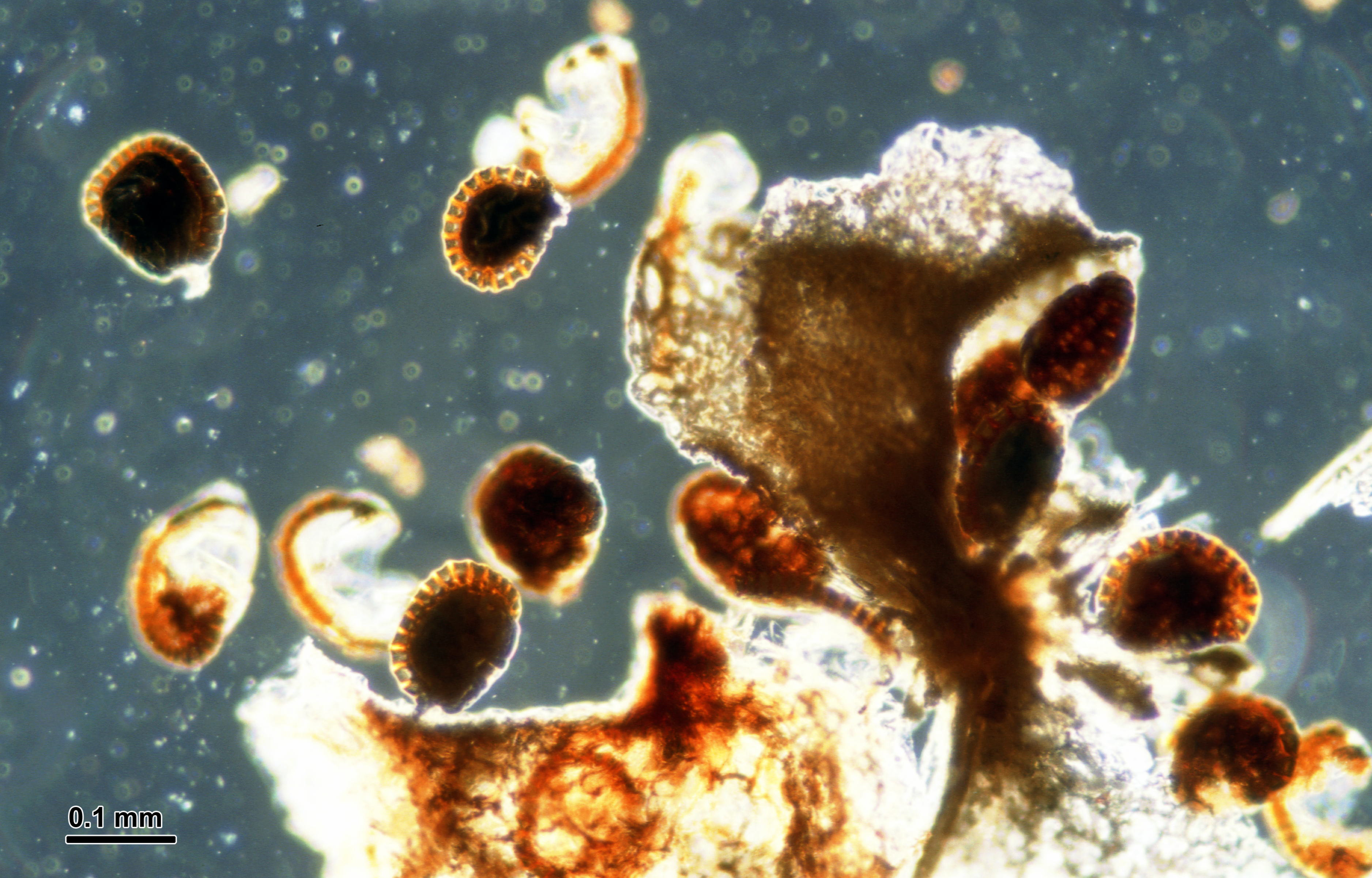 Sporangium: Male fern (Dryopteris filix-mas); total preparation. Optical microscopy technique: Bright field. Magnification: 200x (for picture width 26 cm ~ A4 format).